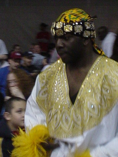 Prince Nana at an NWA Cyberspace show on May 1, 2005.